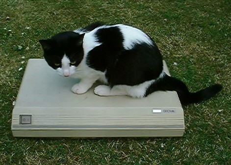 A DECtalk DCT01 with a convenient cat on top for scale. Thanks Tink!